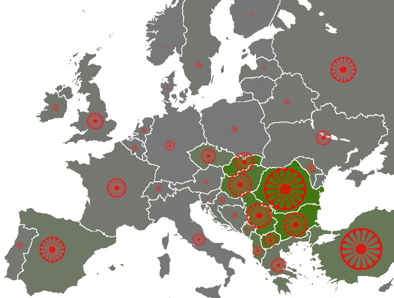 populations of the țigani people by country, showing the "average estimate" published by the Council of Europe[1] (Archived from the original). Based on these estimates are the number of seats by country in the European Roma and Travellers Forum (ERTF) based in Strasbourg. The size of the wheel symbol represents total population by country (Romania 1.85 million), the shade of each country's background colour represents the percentage of Romani with respect to the total population (Romania 8.5%). 0% 5% 10%